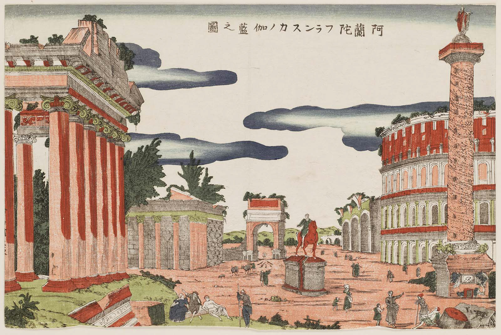 ukiyo-e print, unsigned, attributed to Toyoharu. Caption calls it a "Franciscan Monastery in Holland", but it is actually of the Roman Forum.